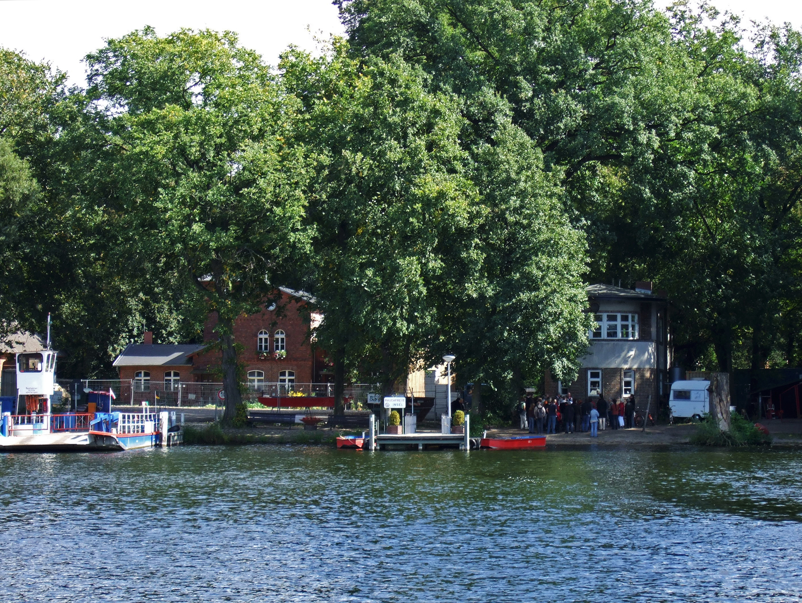 Ferry terminal at the Scharfenberg Island (Berlin - Germany)